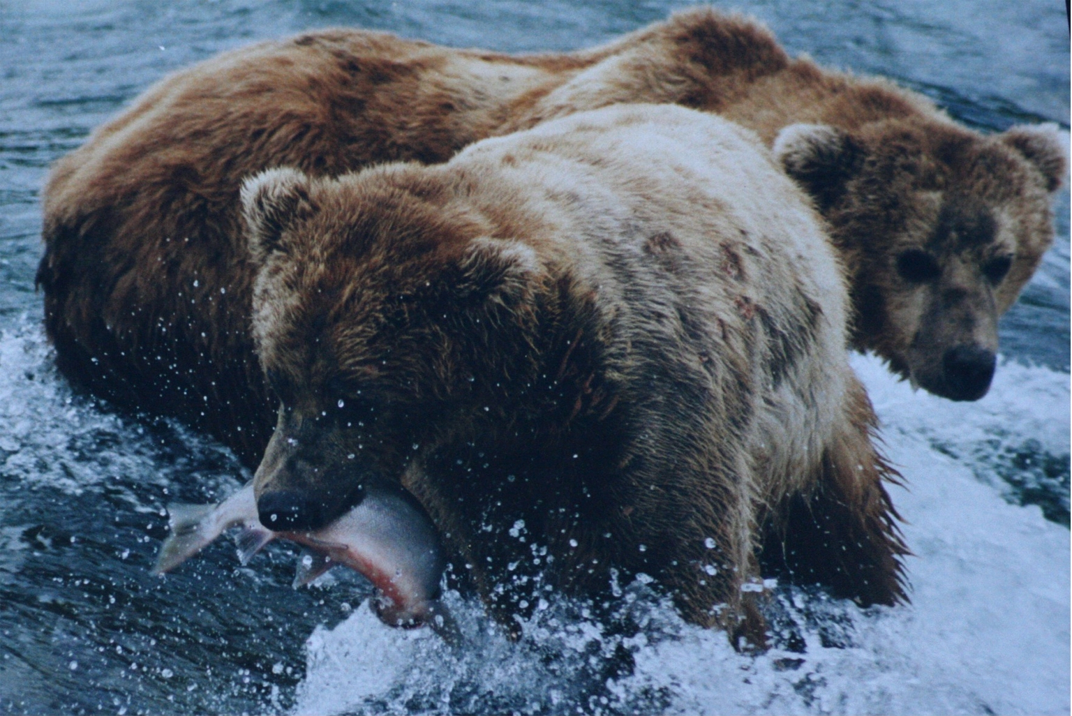 Brown bears at Brooks Falls Katmai National ParkPhotograped by Brocken Inaglory in July of 1998